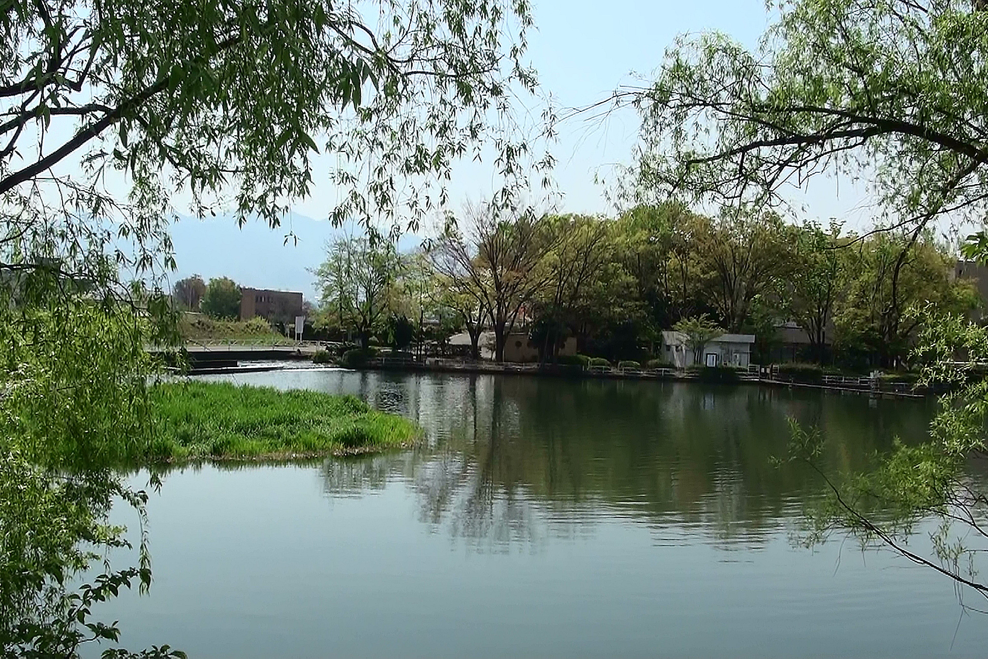 The view of Lake Chidori Yamanashi-city